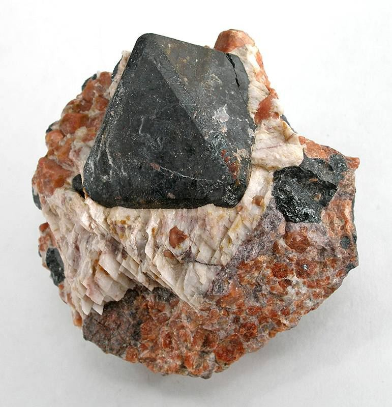 Franklinite, Willemite, Zincite, Calcite Locality: Sterling Mine, Sterling Hill, Ogdensburg, Franklin Mining District, Sussex County, New Jersey, USA (Locality at ) An exceptionally dramatic piece with a stark 4 cm franklinite just sitting nicely in matrix of zincite, willemite, and calcite. The crystal is remarkably free of cracking, which happens often in larger crystals; and also free of shoe polish and glue fill in said cracks - a more frequent occurence than we specimen collectors like to admit. But, in the old days, it was almost a tradition to fake and build up broken franklinite crystals in matrix! Luckily, this one survived and was never played with. It probably dates to older workings in the late 1800s to early 1900s, and is not recently found. 9 x 9 x 8 cm